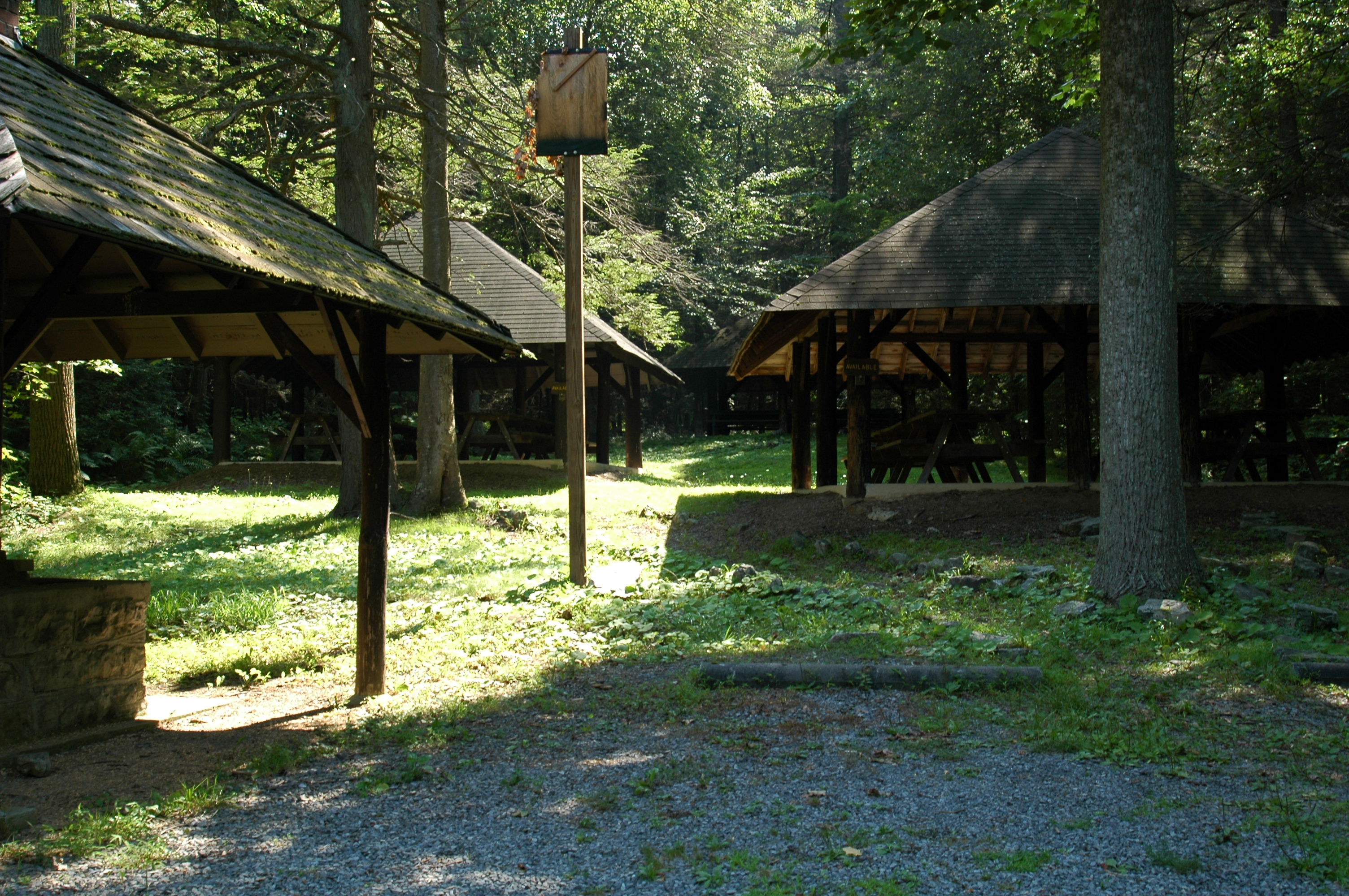 Picnic shelters at Big Spring State Park